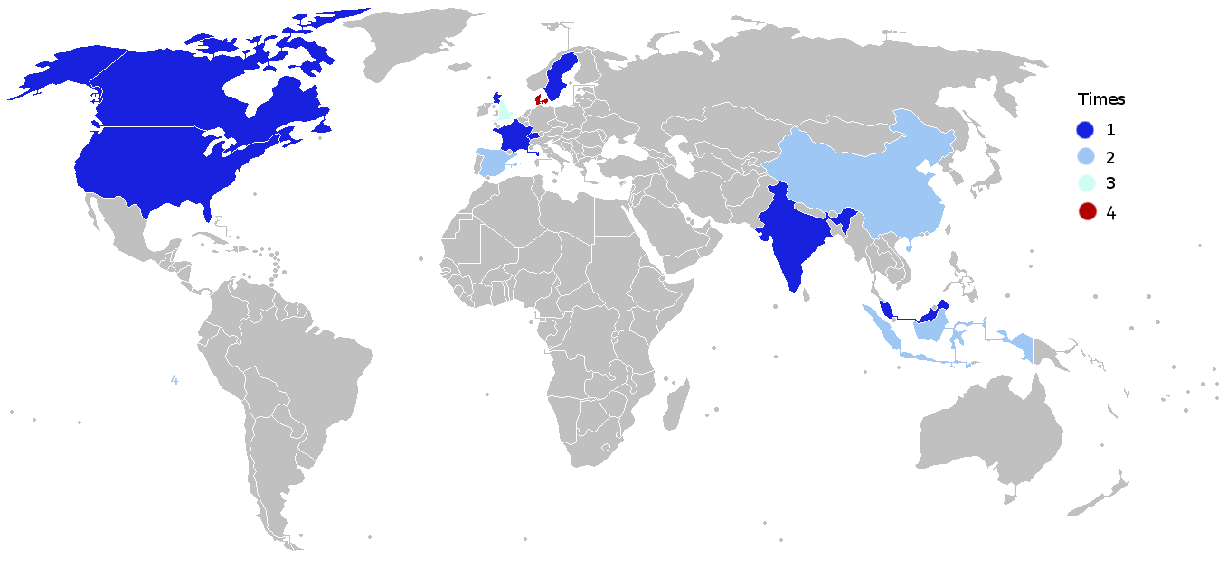 Countries that host World Badminton Championships